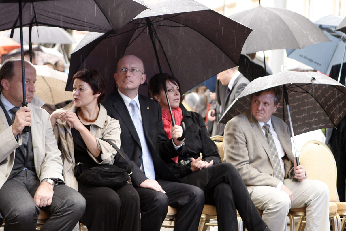 Dalia Grybauskaitė Presidential inauguration, Lithuania, 2009-07-12 Andrius Kubilius, Arvydas Valinskas